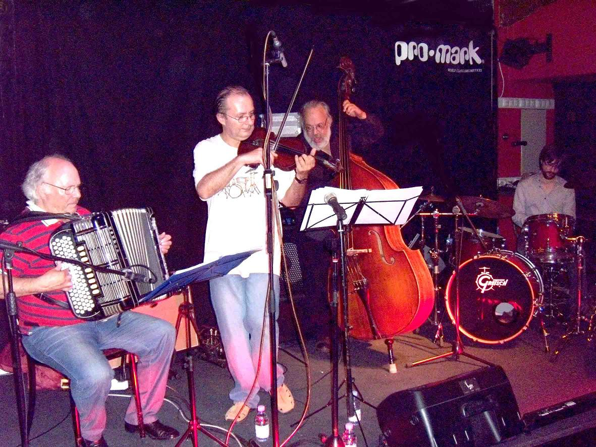 Alberto Jorge (musician) with Gadjo Calom Group